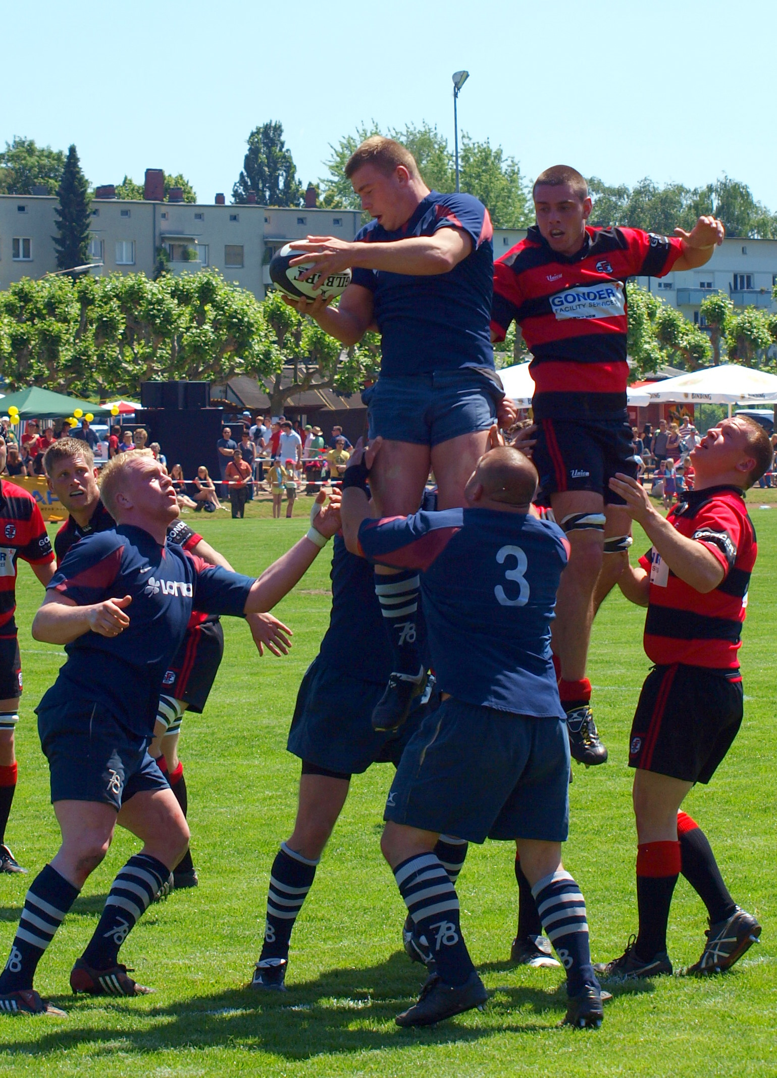 Line-Out during the finals of the second German rugby division. DSV 1878 Hannover vs. SC 1880 Frankfurt on the 2009-05-23 in Frankfurt